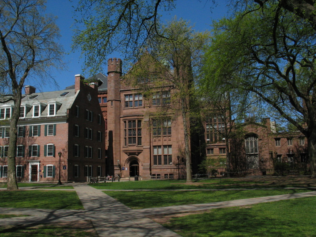 Yale's Old Campus, facing west towards High Street. From left to right: in the foreground, McClellan Hall; behind and to the right, Linsly-Chittenden Hall; further right, Dwight Hall. McClellan Hall is a residential building; Linsly-Chittenden Hall is used by the English Department. Dwight Hall houses the Center for Public Service and Social Justice at Yale (until 2010).